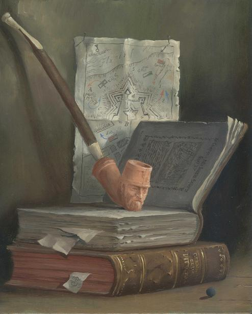 Stillife with pipe. My own Oil Picture.